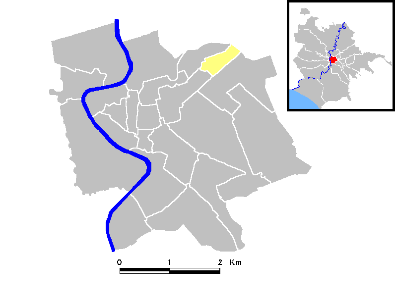 Locator maps of Rome (rioni)